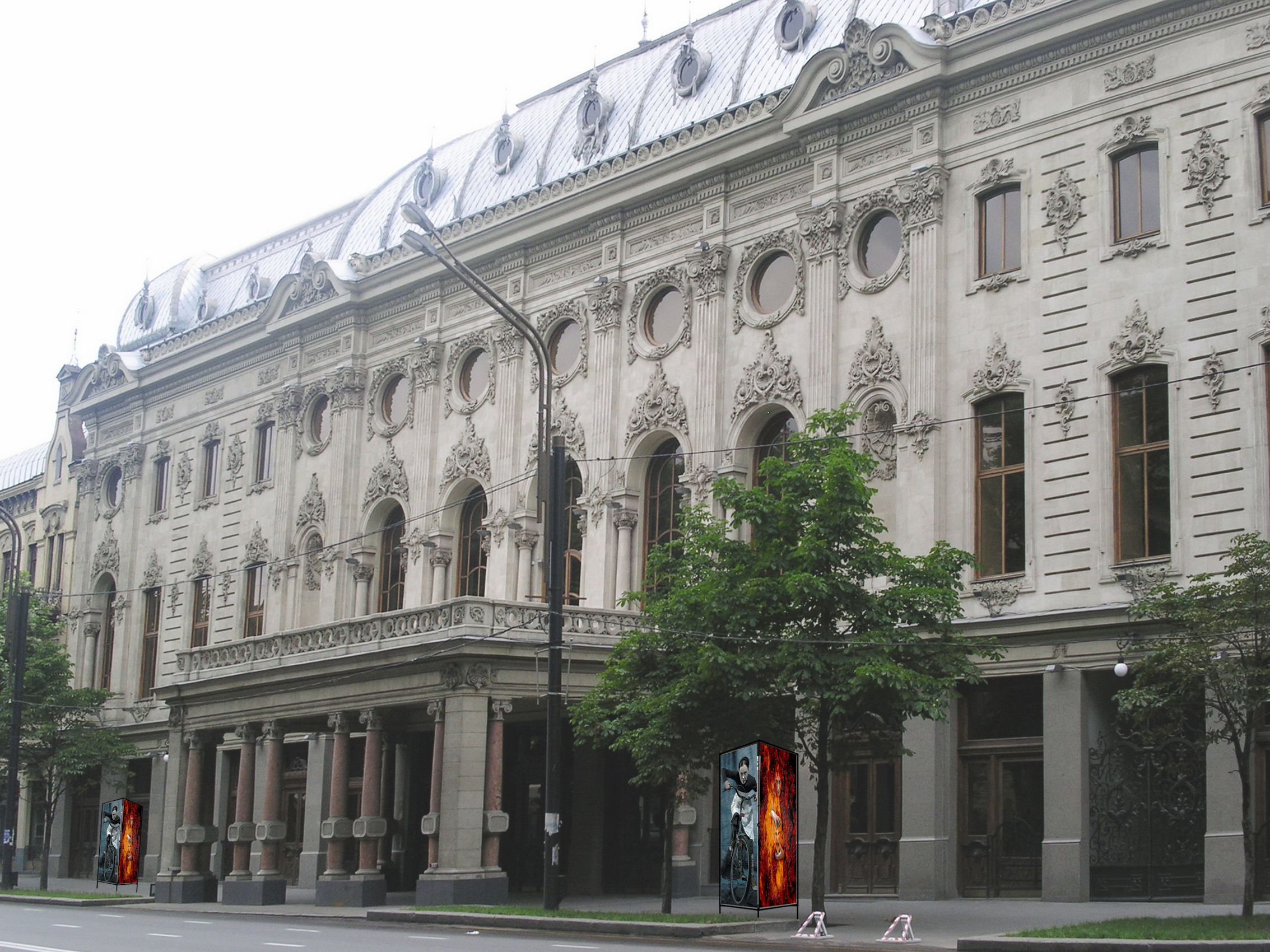 Rustaveli Theatre facing Rustaveli Avenue.